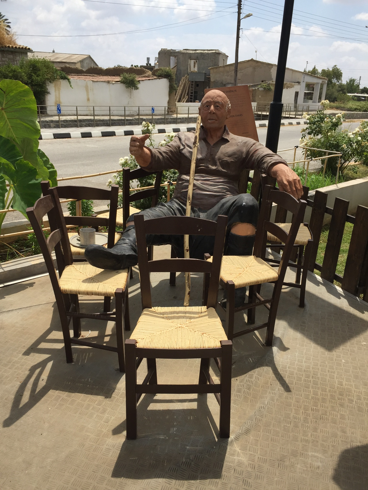 Statue in the town of Lefkoniko/Geçitkale, Northern Cyprus. The artwork by Sevcan Çerkez depicts the traditional supposition that Cypriots need seven chairs to sit comfortably.